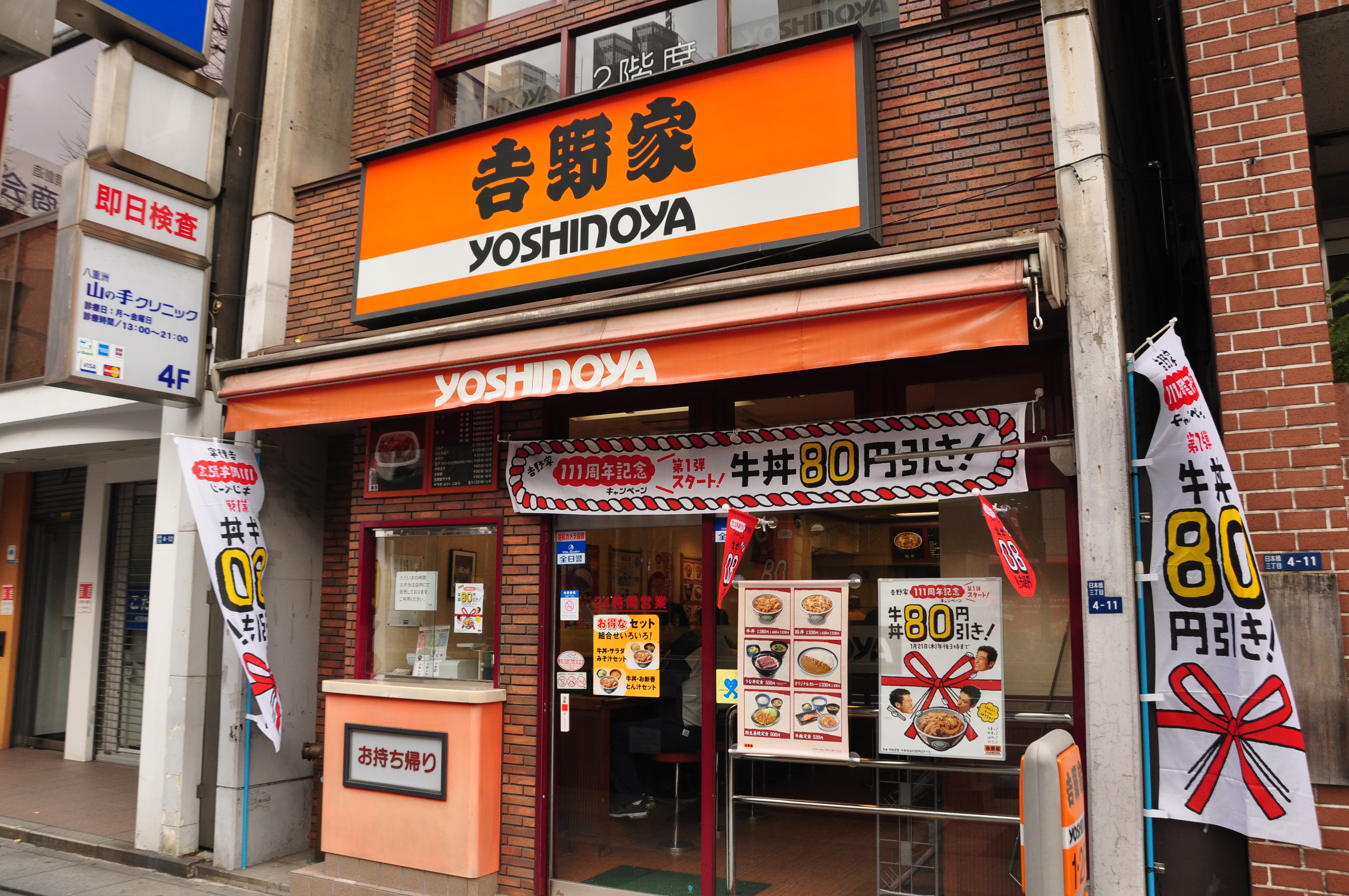 ah, yoshinoya...without you, i wouldn't be able to find my way to my cousin's house in cerritos.